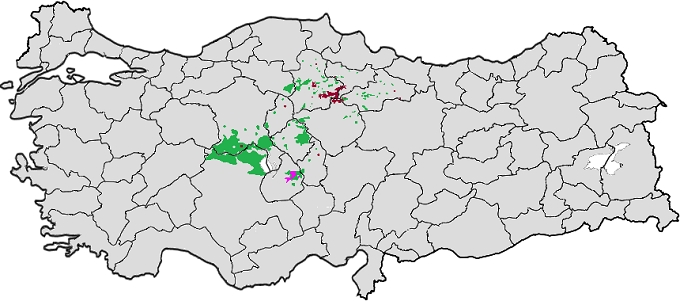 A map depicting the spread of the Kurds of Central Anatolia. Green = Sunni Kurds. Pink = Sunni Zazas. Dark red = Alevi Kurds. Kurdî: Nexşeya belavbûna kurdên Anatolyaya Navîn. Kesk = kurmancên sunî. Pembe = kirmancên sunî. Sorê tarî = kurdên elewî.